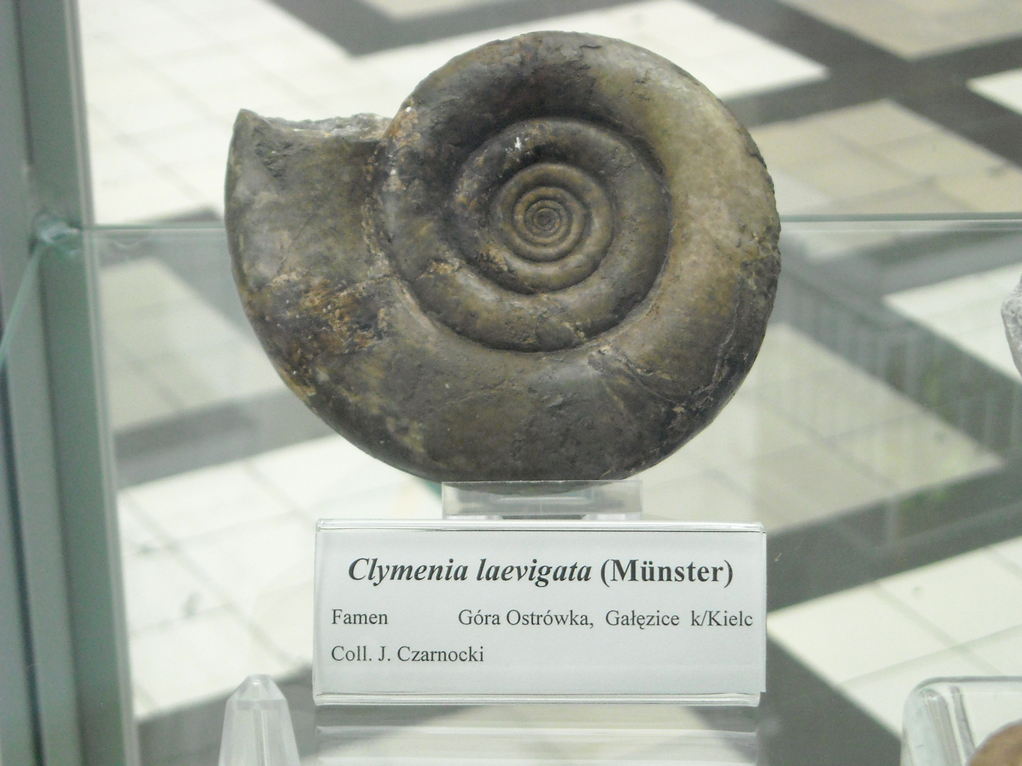 Fossil of Clymenia laevigata - species of ammonite. This specimen comes from Famennian of Poland.